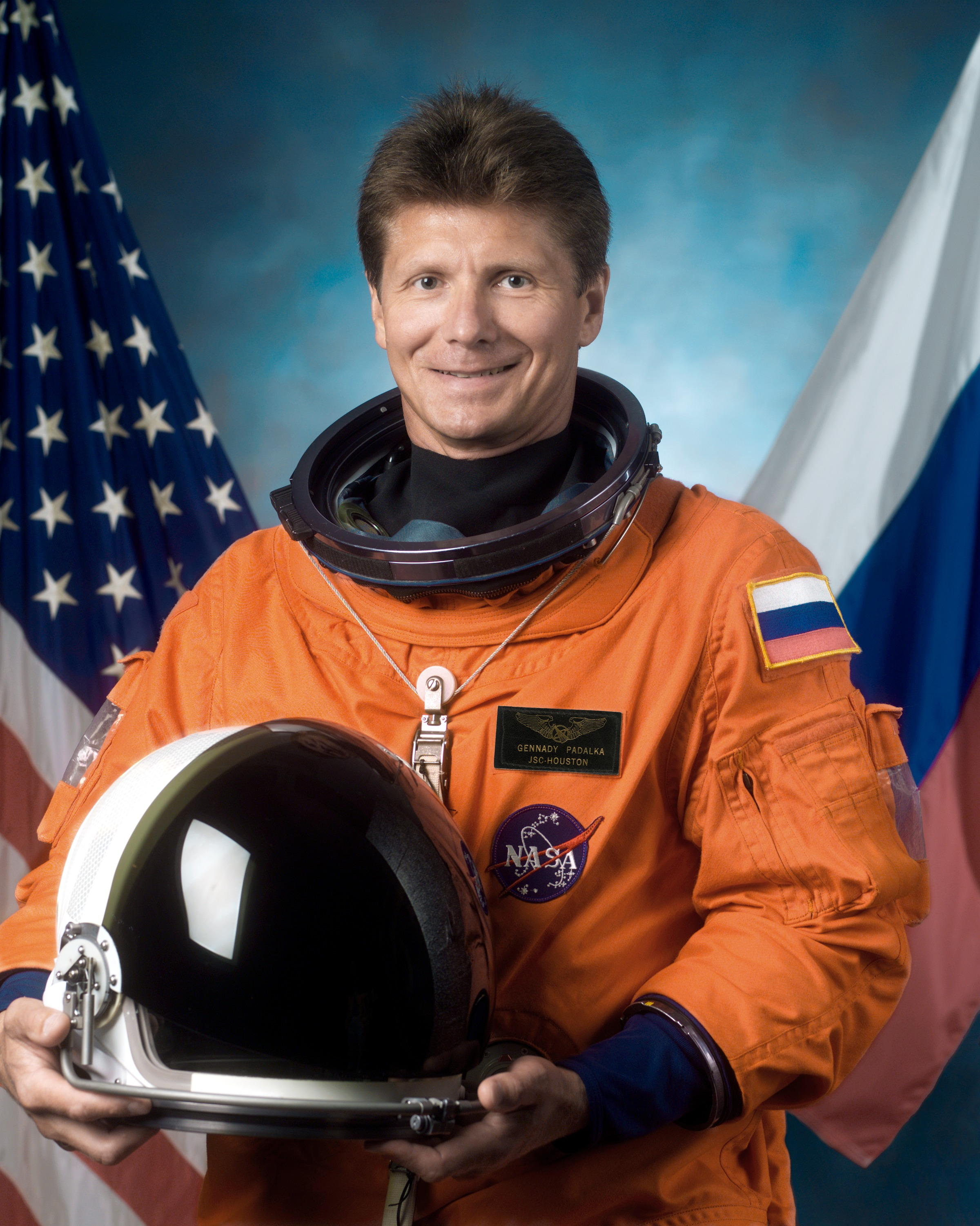 Cosmonaut Gennady I. Padalka, representing Roscosmos.